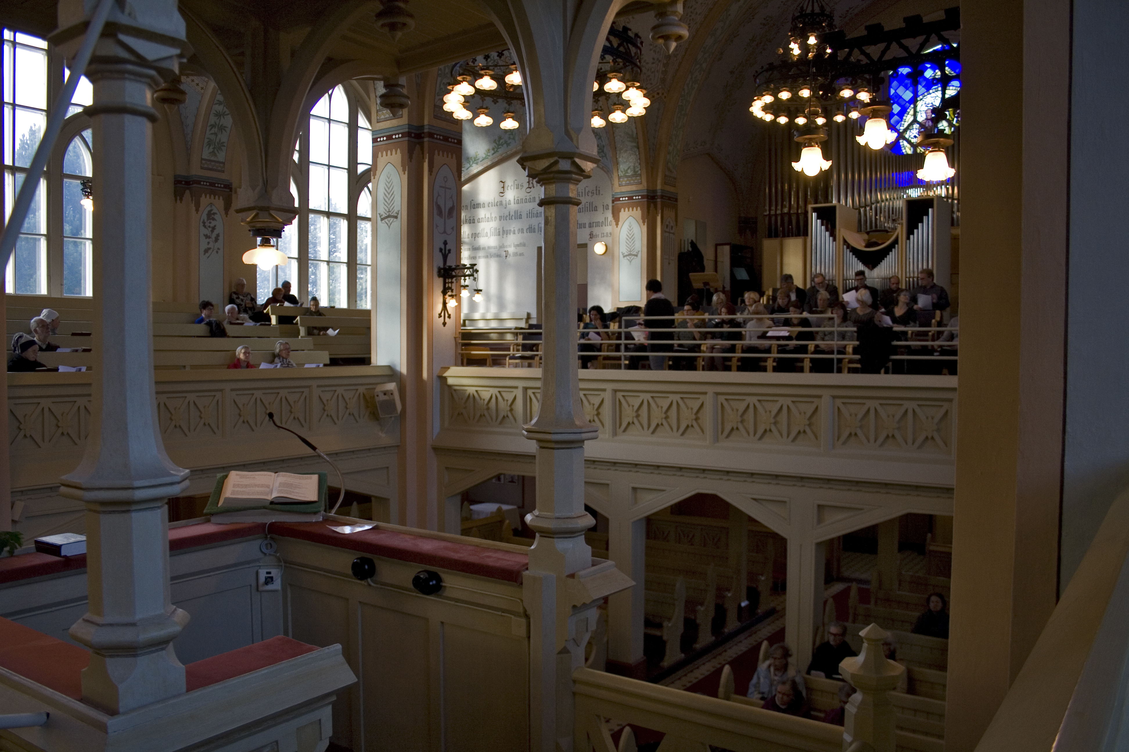 Evangelic church in Joensuu, Finland, 2015